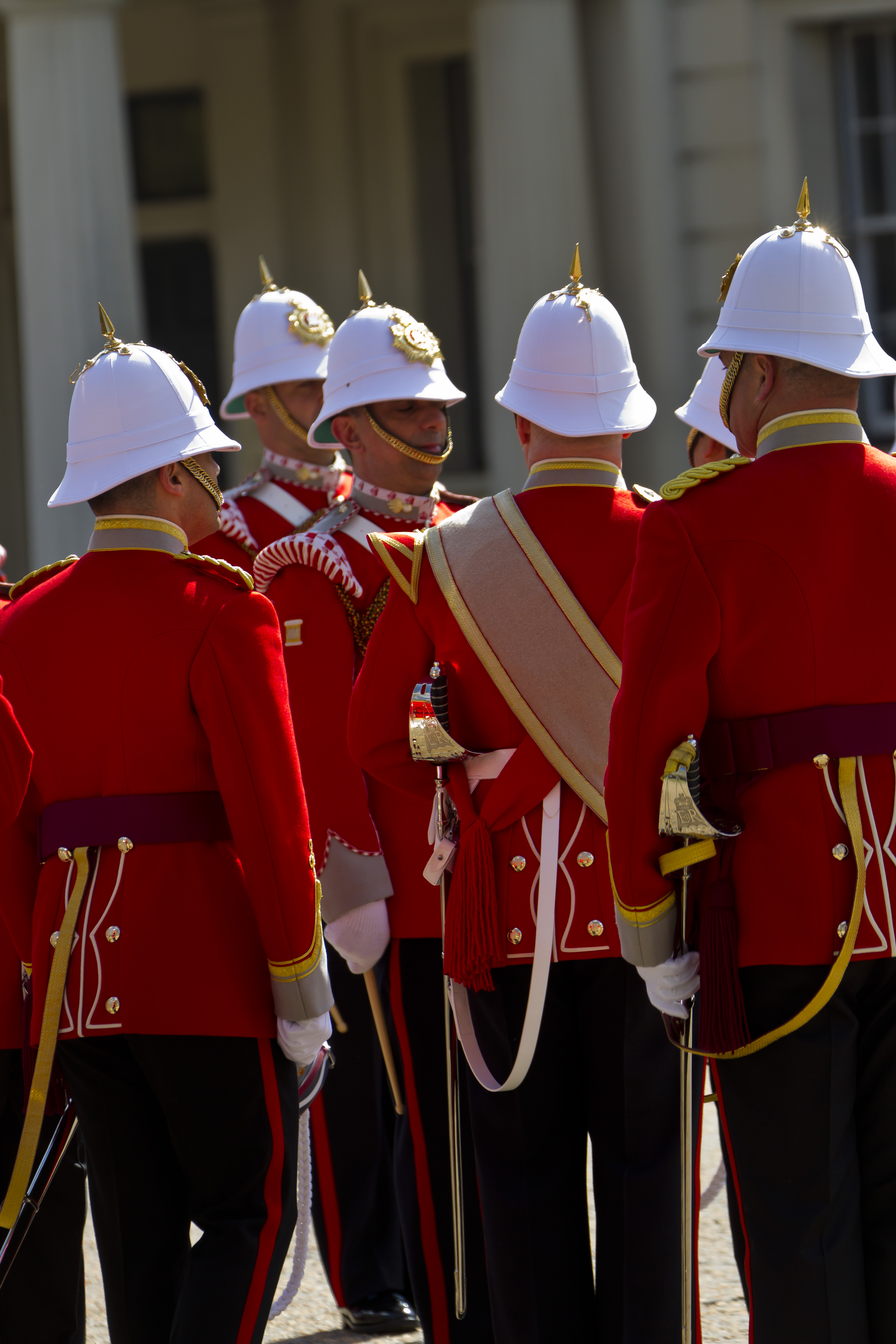 Changing of the Guard - Royal Gibraltar Regiment. Aprl 2012